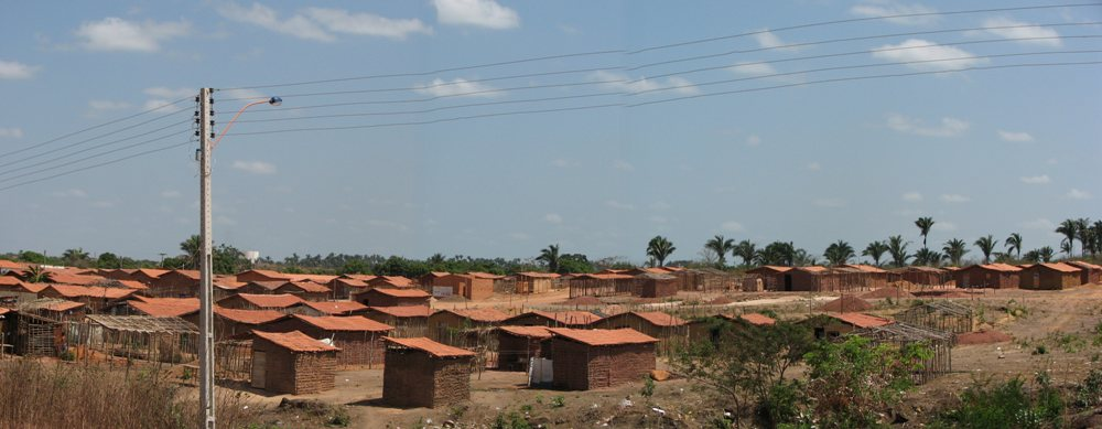 Poor housing conditions in Teresina.